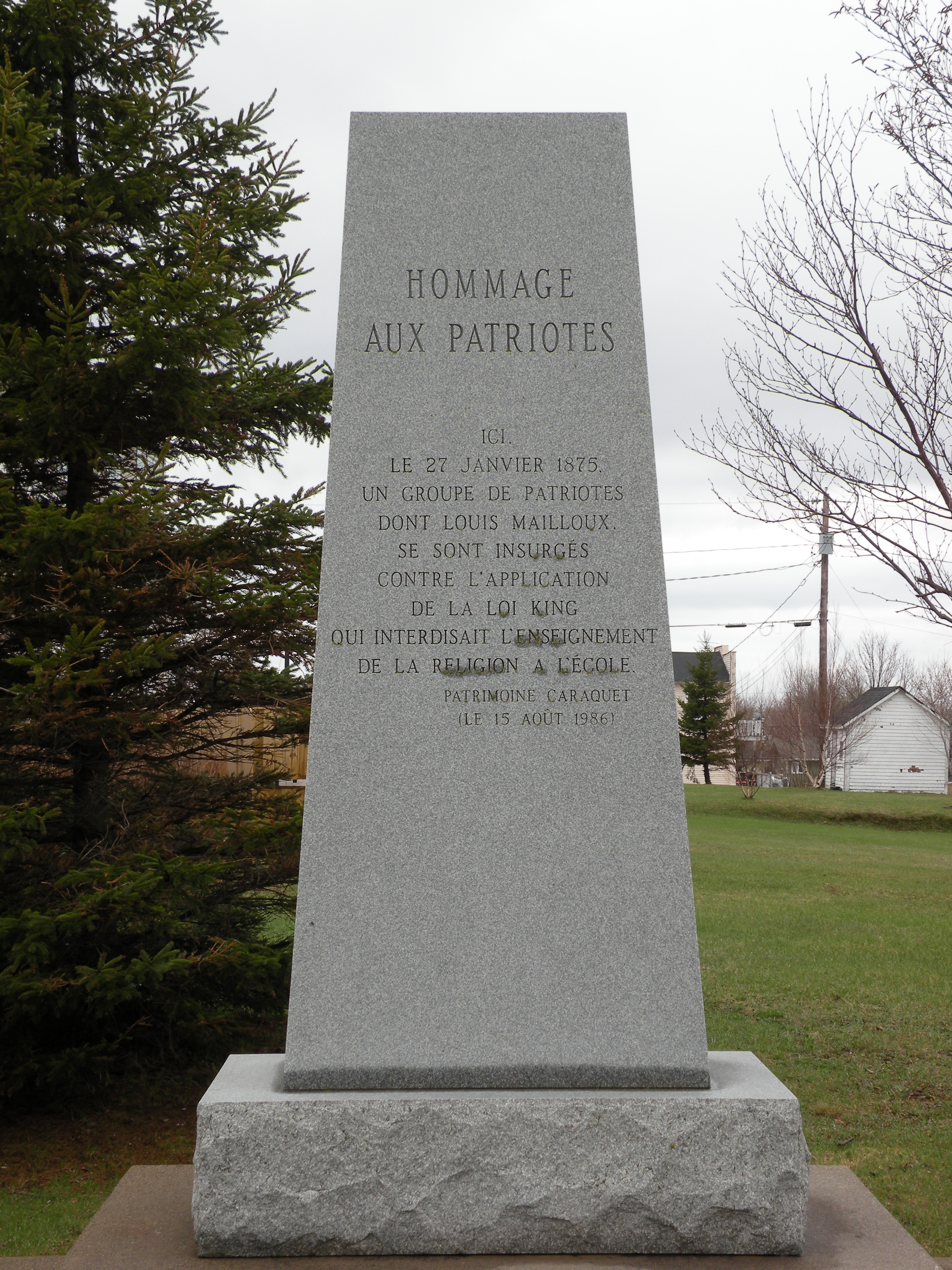 Hommage aux patriotes monument in Caraquet, New Brunswick, Canada.